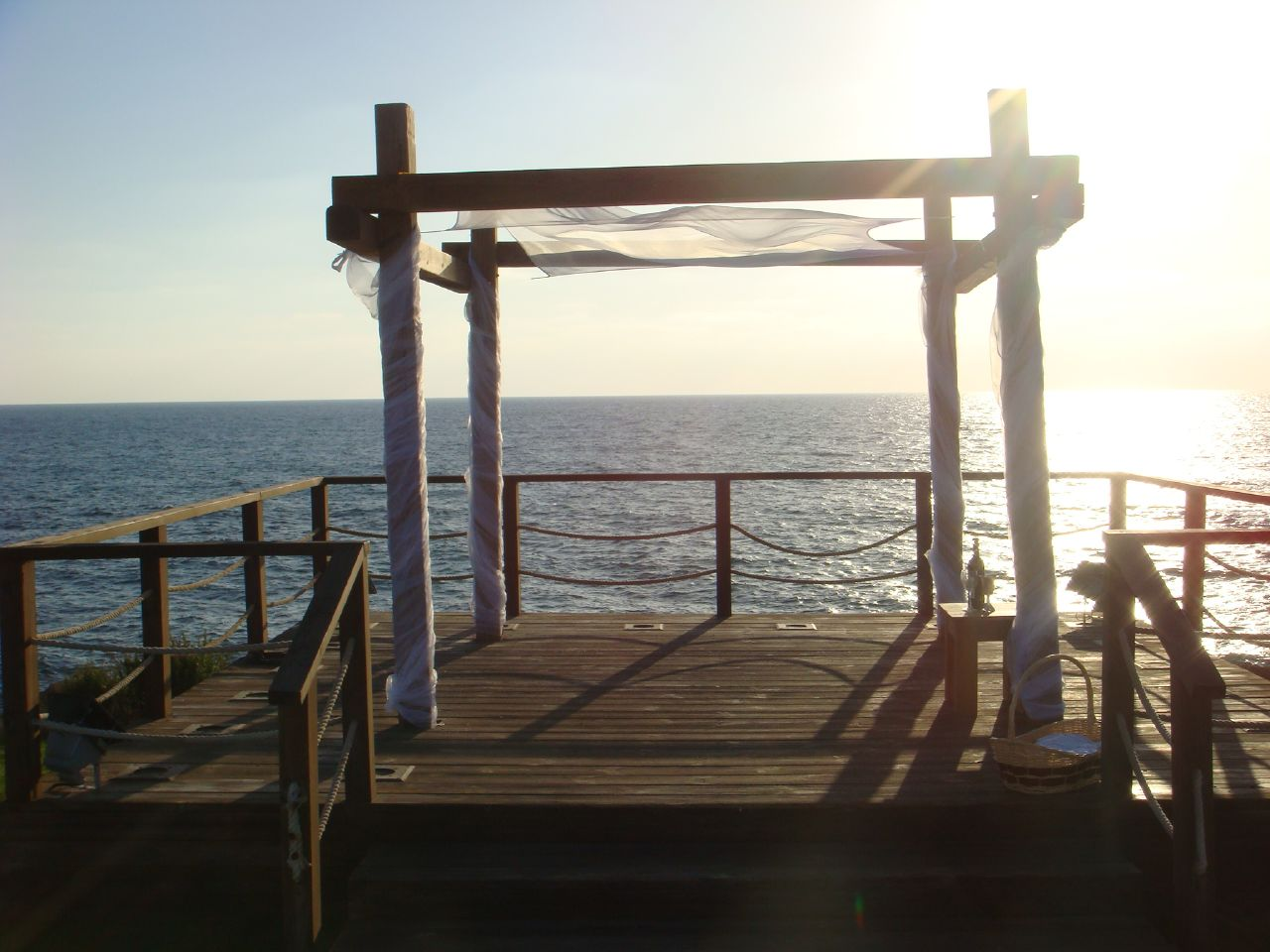 Chuppa.